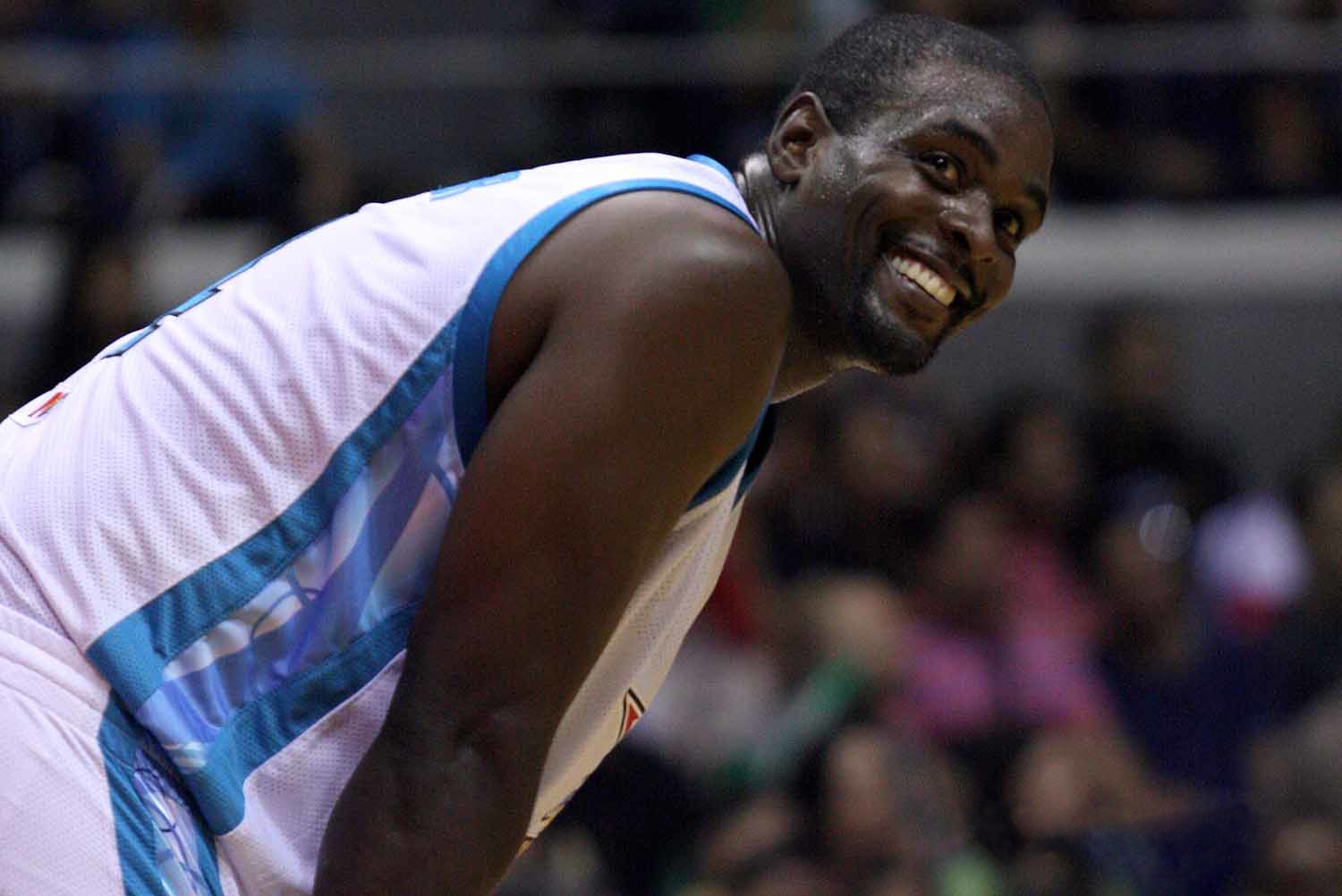 Chris Webber playing in the NBA Asia Challenge 2010 in the Philippines.